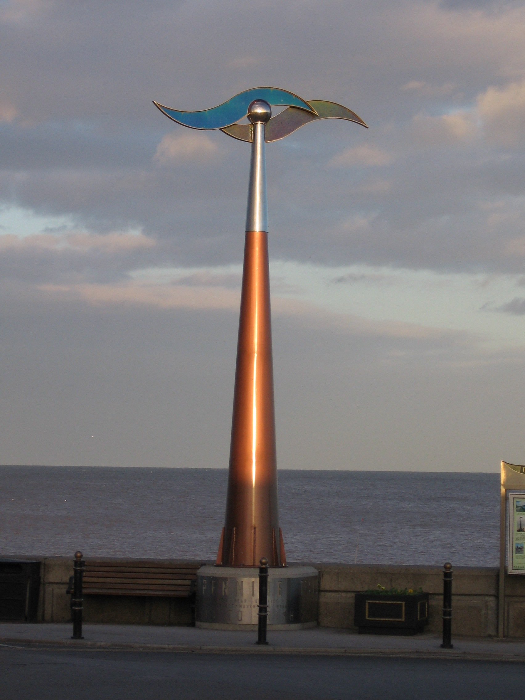 Photo taken by me on 18 November 2006. Trans Pennine Trail end marker on the seafront, Hornsea, East Riding of Yorkshire, England.